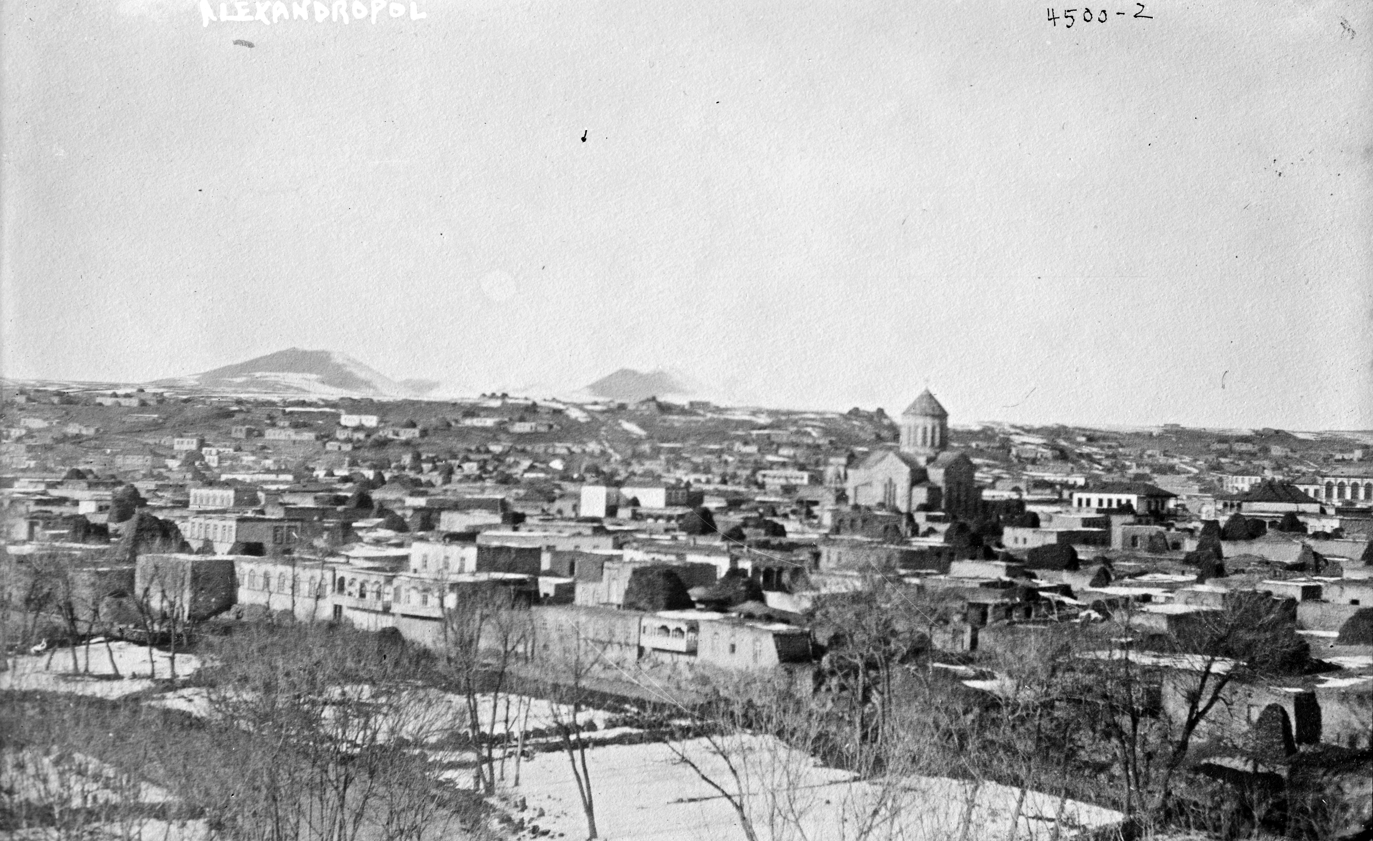 Gyumri in 1915-1920